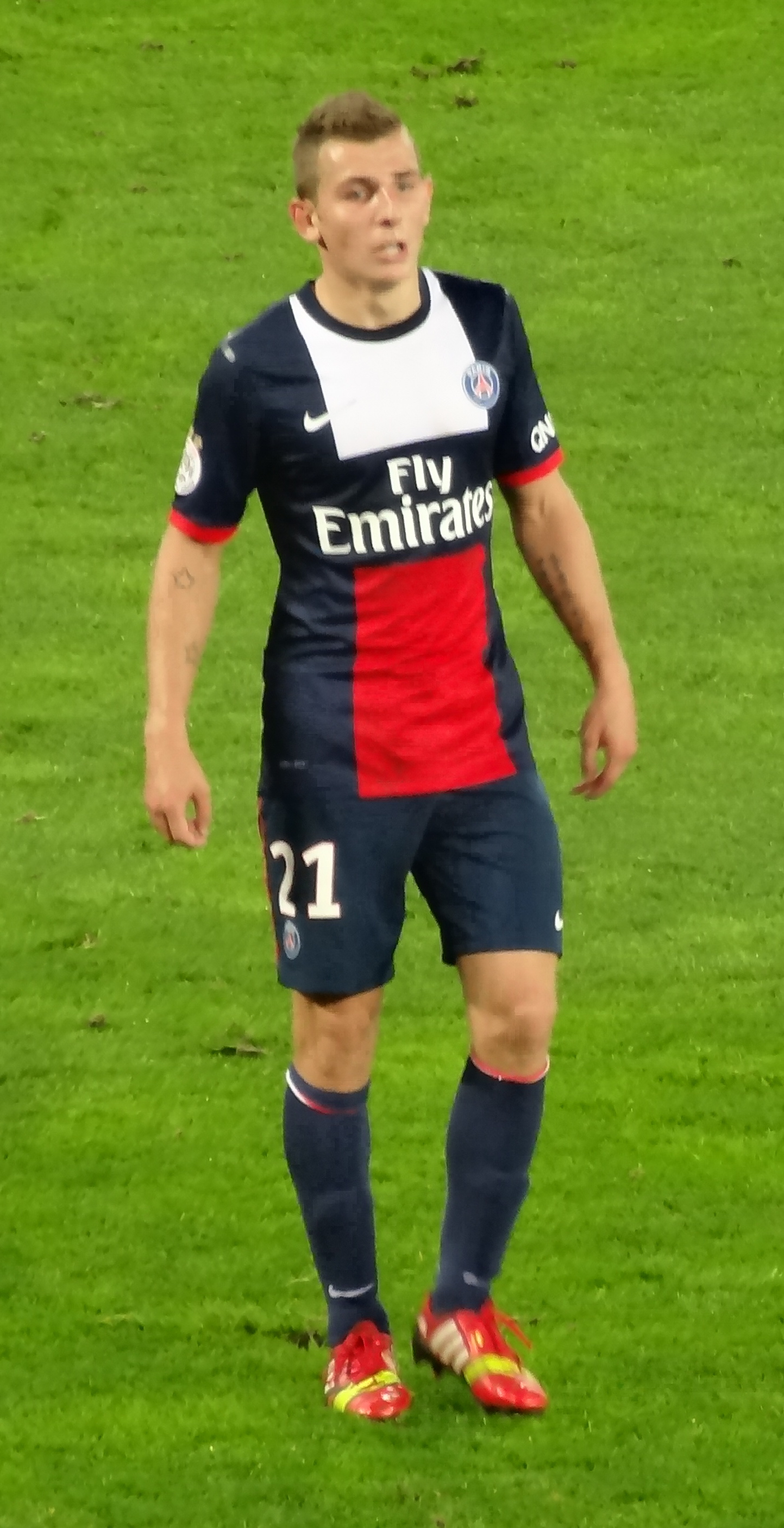 Lucas Digne, PSG